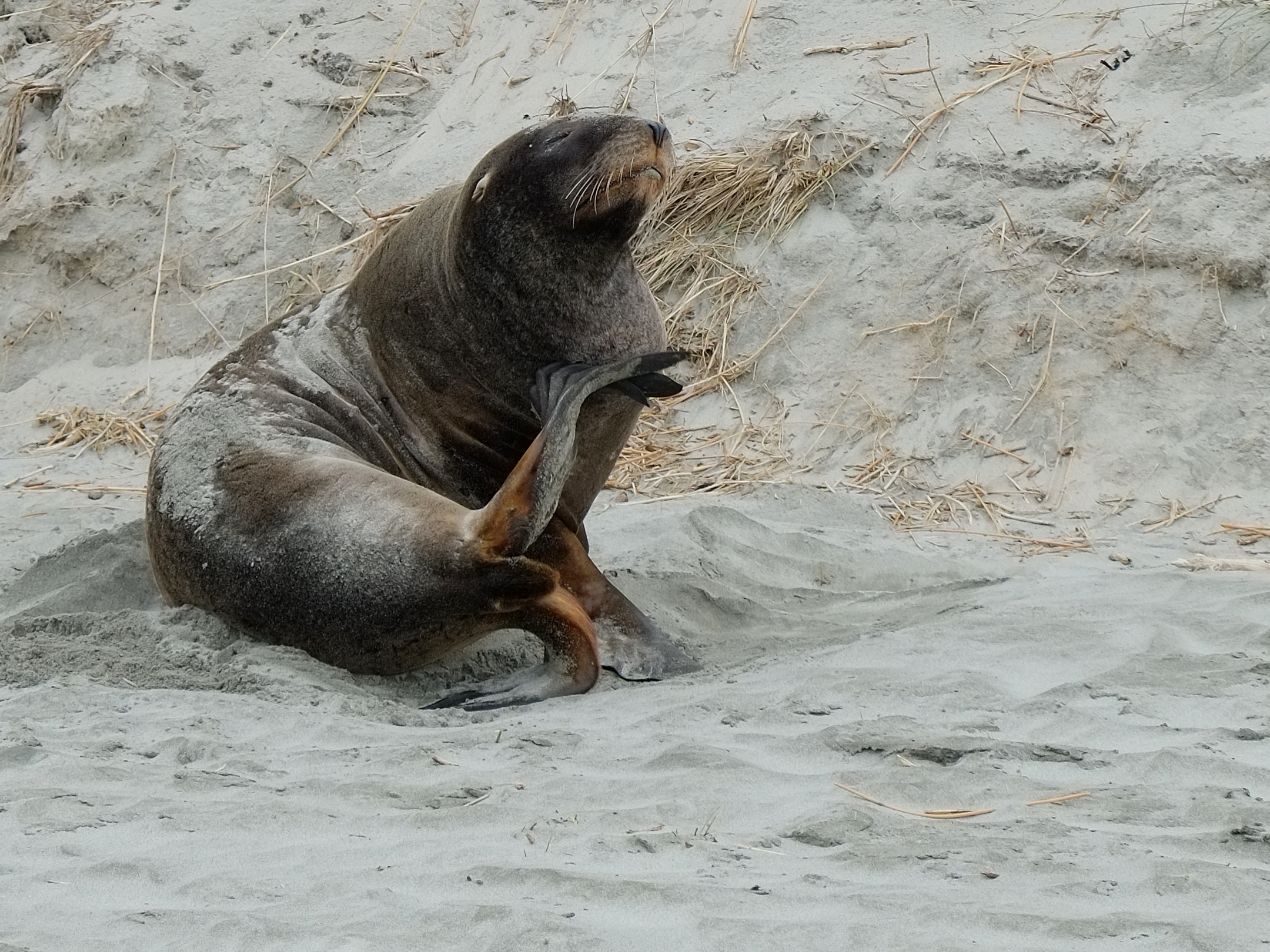 New Zealand Sea Lion sitting at Allan's Beach on Otago Peninsula